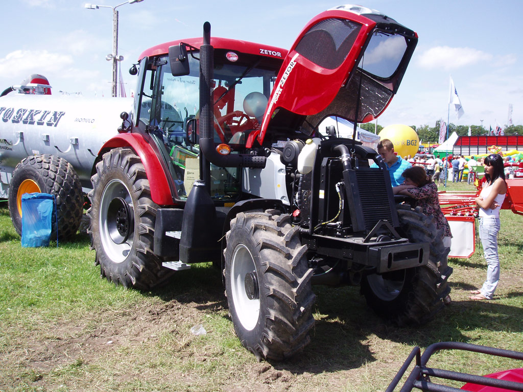 Zetor Proxima Power 95 tractor.